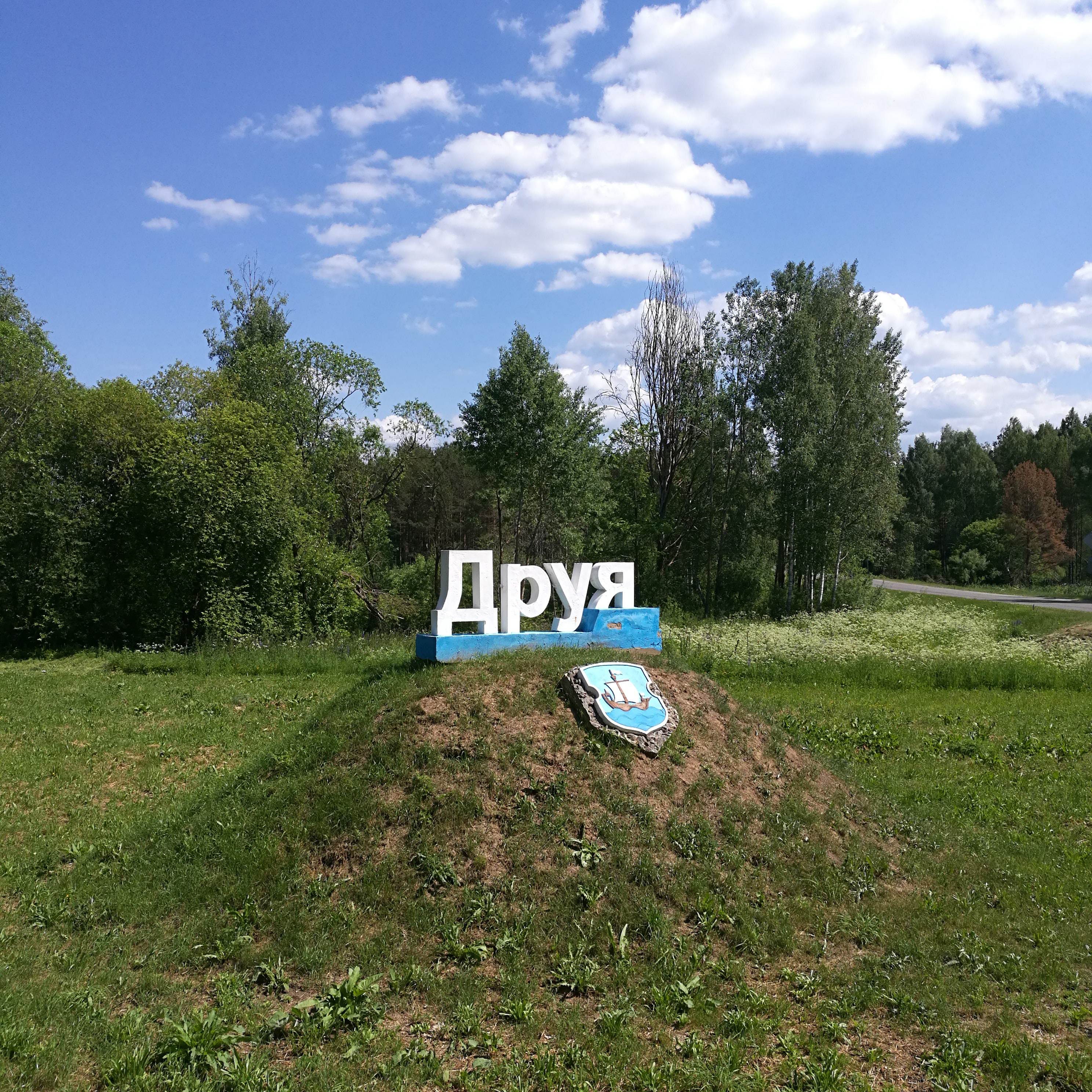 Town sign in the western entrance to Druya